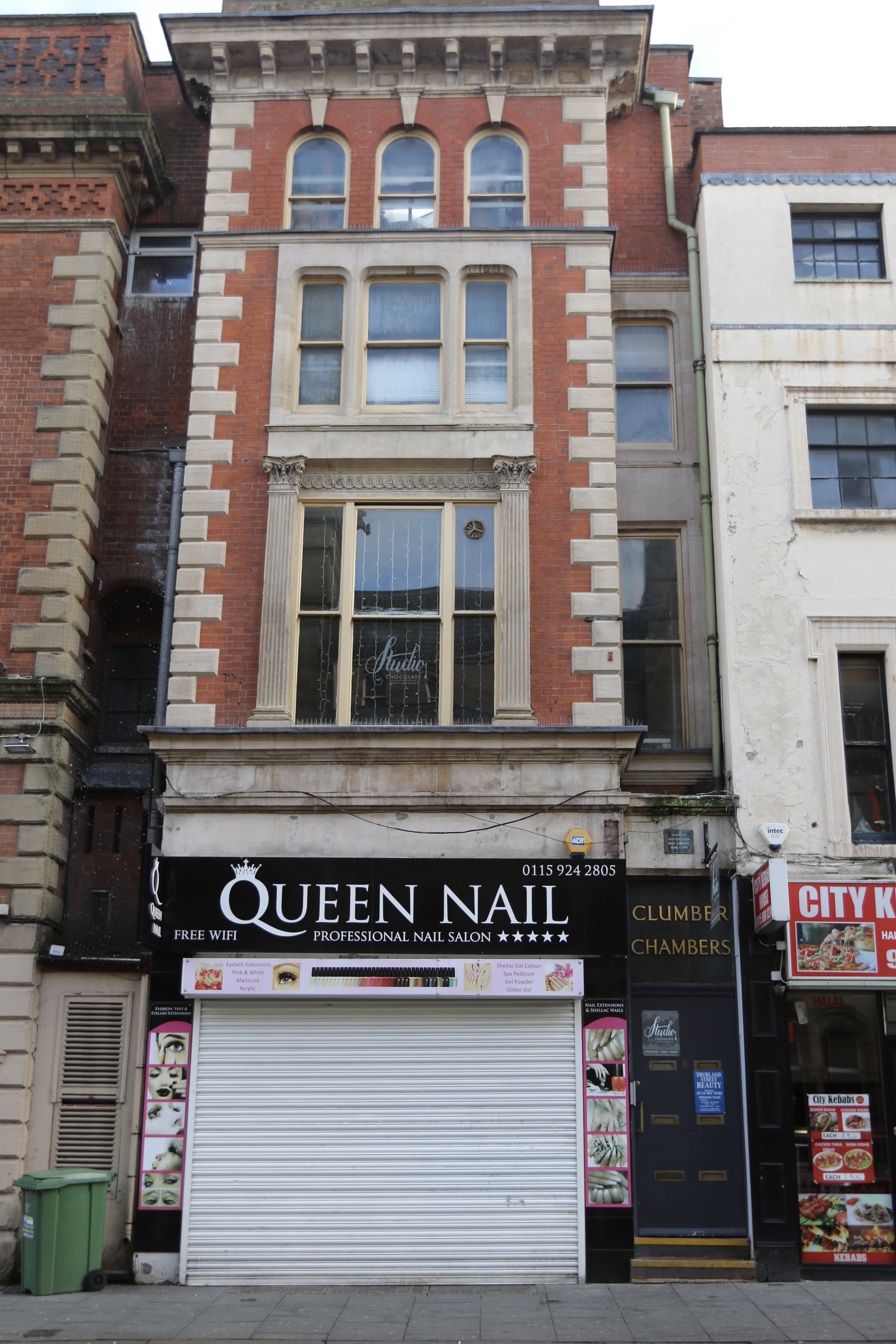 The Nottingham Free Library from 1868 - 1881. Built by Robert Clarke.